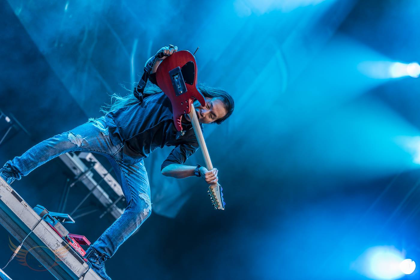 Herman Li - Dragonforce at Wacken Open Air 2016